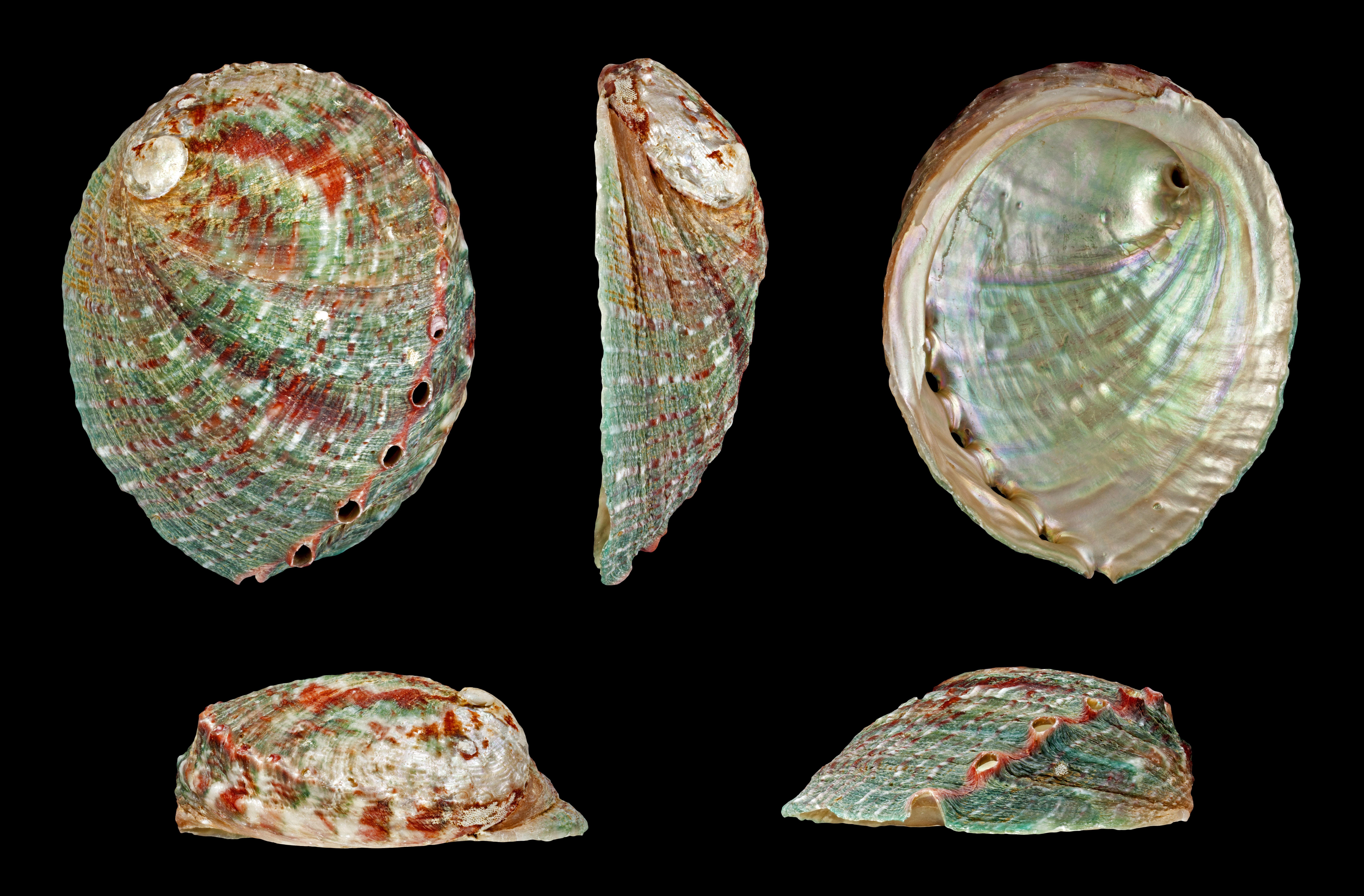 Haliotis kamtschatkana assimilis Dall, 1878, Threaded Abalone; Length 7.7 cm; Originating from the Baja California Peninsula, Mexico. Shell of own collection, therefore not geocoded.